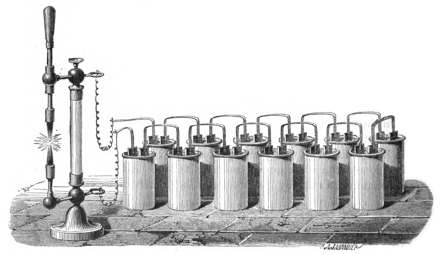 Early experimental carbon arc light powered by a battery of liquid cells. The arc light, the first practical electric light, was used for street and building lighting from the 1870s to the early 20th century, when it was replaced by the incandescent light. This is a reproduction of the invention of the arc light by British chemist Humphrey Davy around 1808. Davy used a battery of 3000 liquid cells to produce a high voltage arc between carbon electrodes.